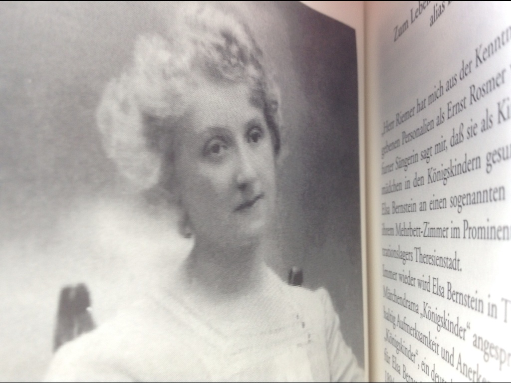 widely-reproduced 1905 Elsa Bernstein photograph within the pages of Das Leben als Drama (Life as Drama), her 1946 Theresienstadt memoir as yet untranslated into English